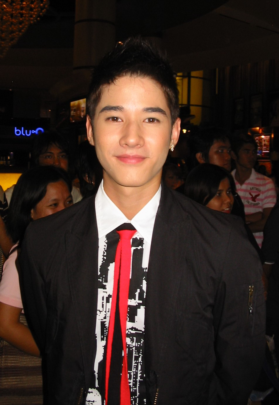 Mario Maurer at Star Entertainment Awards 2007